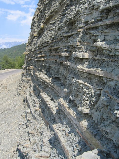 Photo of Sedimentary Bedding S-Turkey Created by Y. Kremer